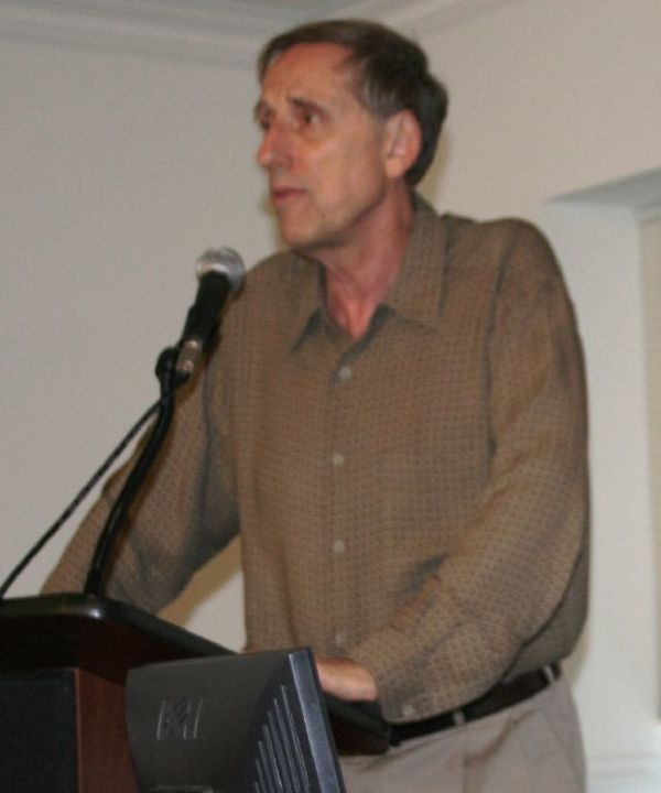 Ariel Dorfman speaks about "Poems from Guantanamo"